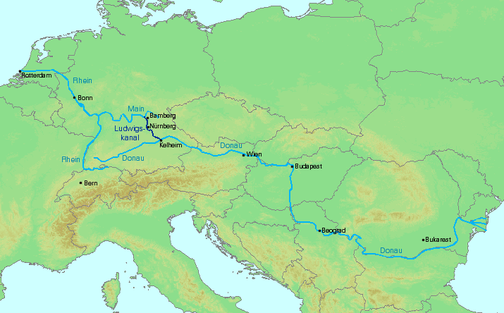 Map showing the Ludwigs Canal in the european context on the route Rotterdam – Black Sea.